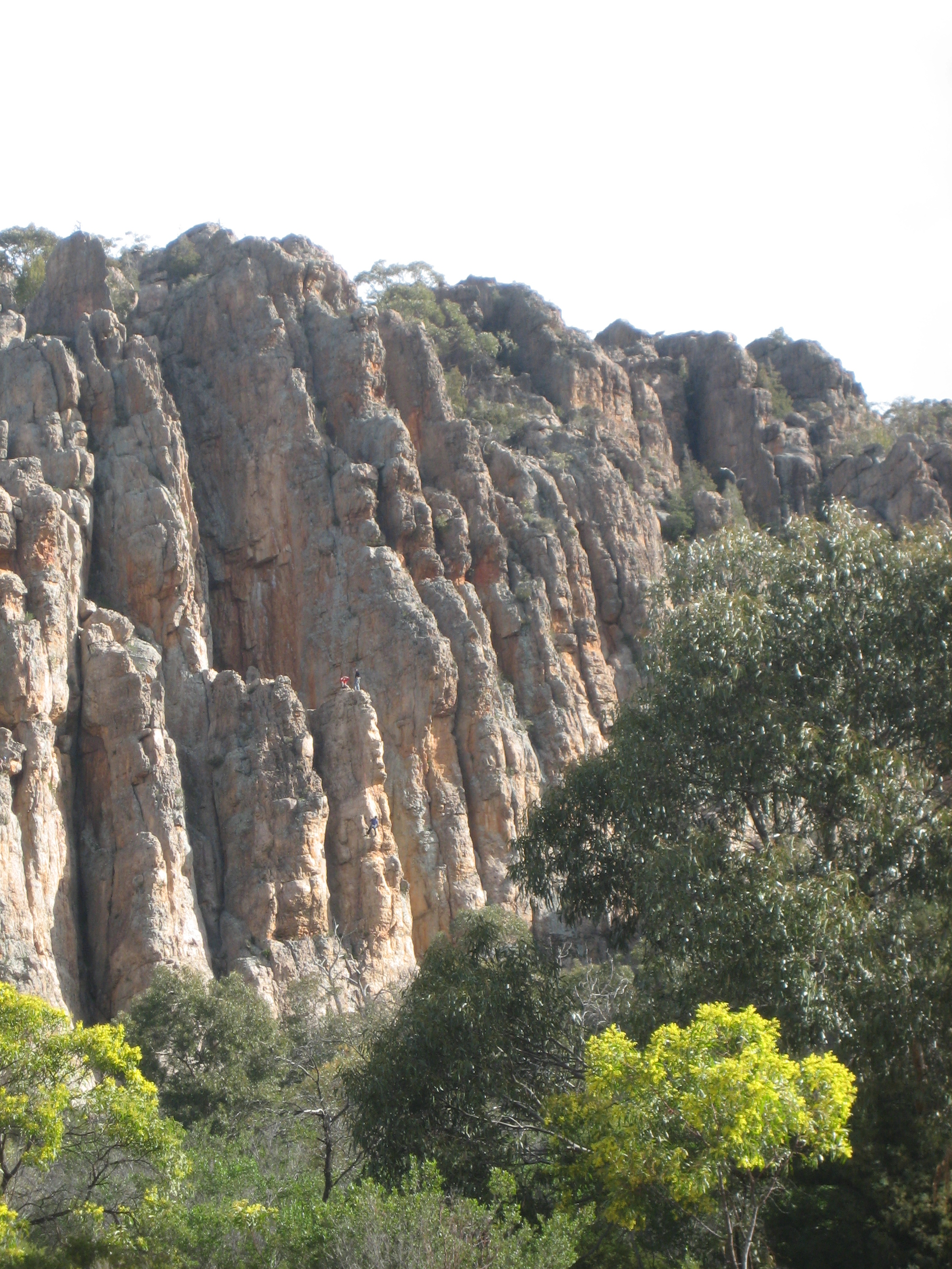 Climbers on the Organ Pipes at Mount Arapiles. Climbers are visible slightly left of the centre, standing on a large spur.